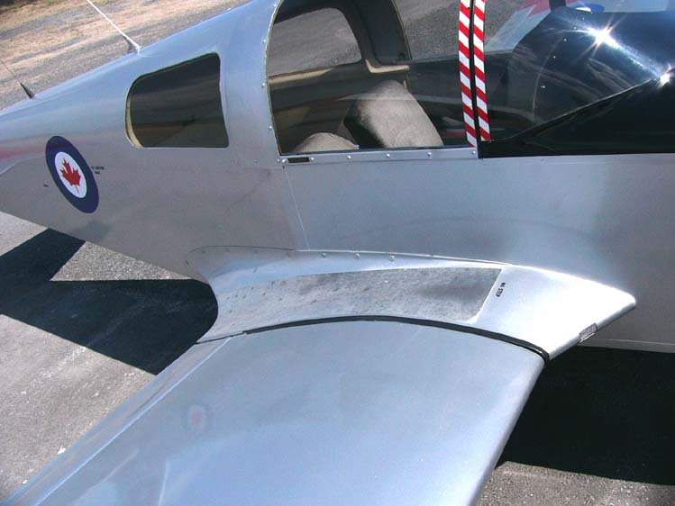 I took this photo and release it to the public domain